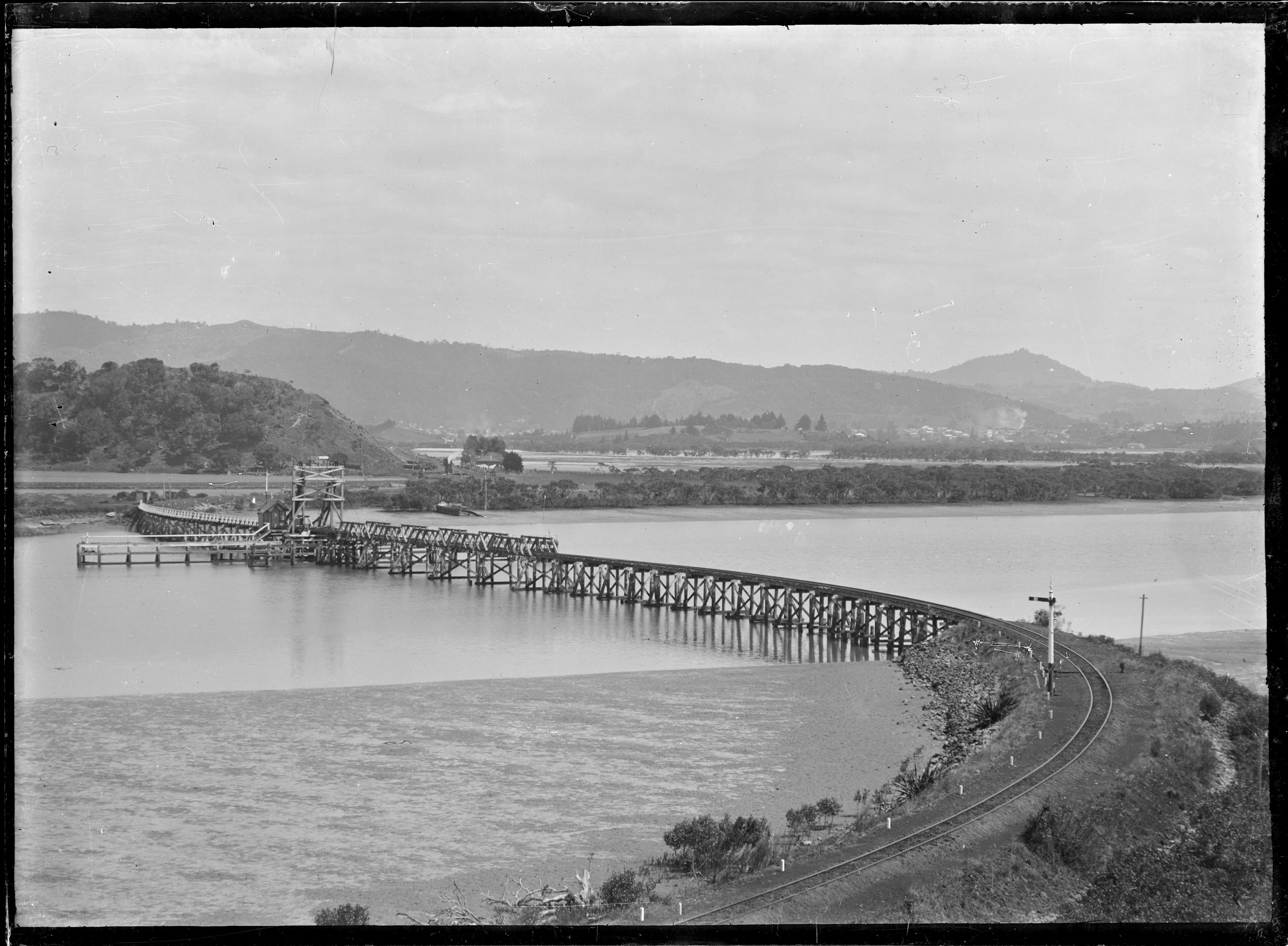 View of the railway bridge over the Hatea River at Port Whangarei. Photograph taken by Albert Percy Godber in February 1923. The Hatea River was known to Godber as the Whangarei River, and Port Whangarei was known as Kioreroa.